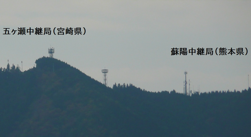 The Top of Mount Kagami (Gokase Repeater and Soyo Repeater) - from Gokase Town, Miyazaki Prefecture, Japan.